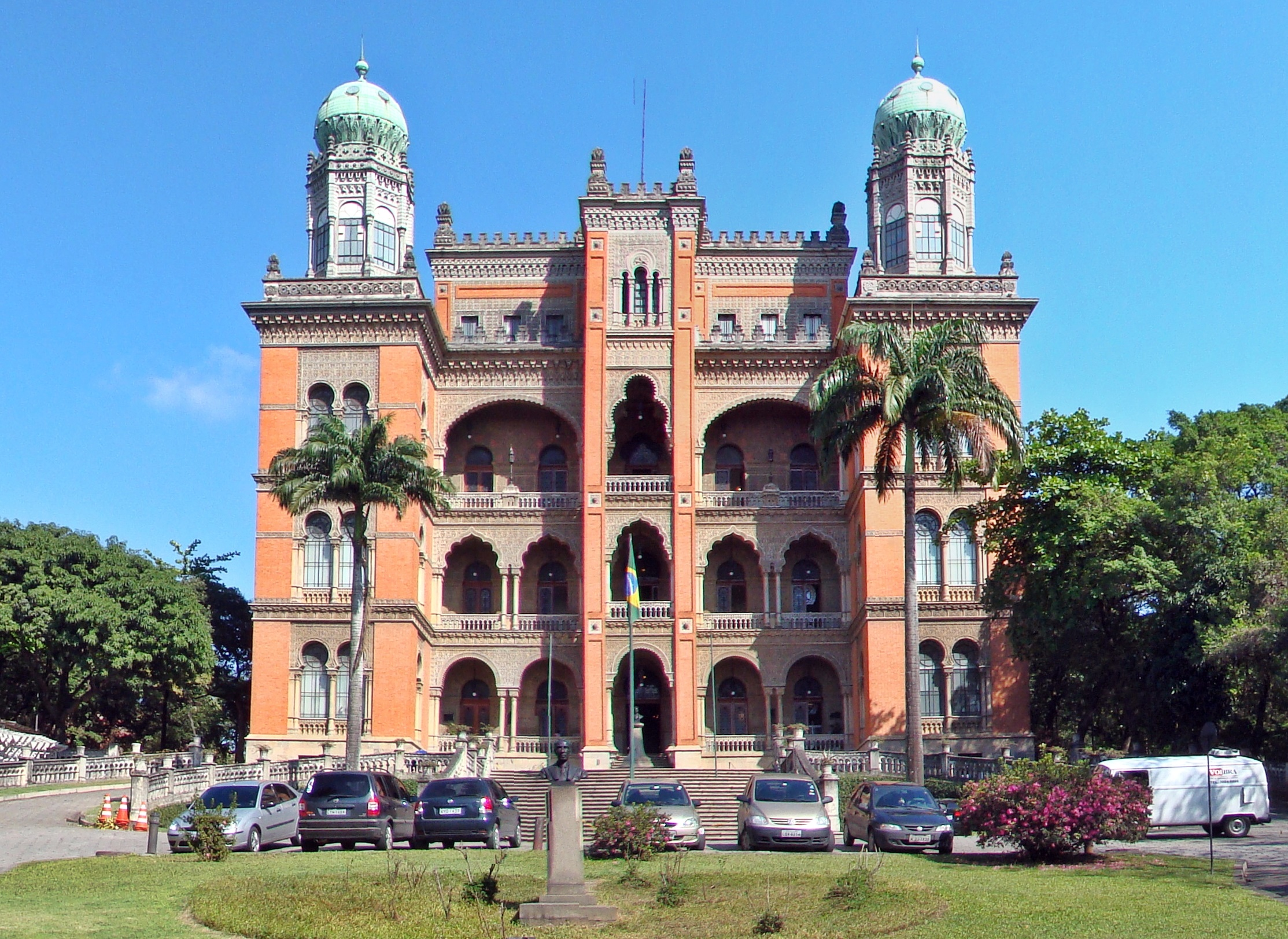 Castles of Fundação Oswaldo Cruz (FIOCRUZ), Rio de Janeiro, Brazil